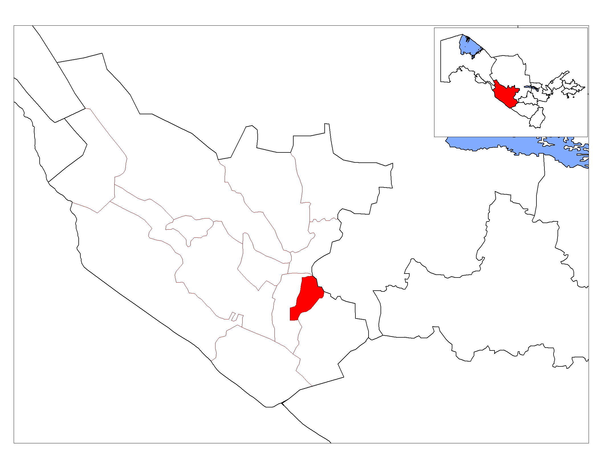 Location map of Kogon District in Buxoro Province, Uzbekistan